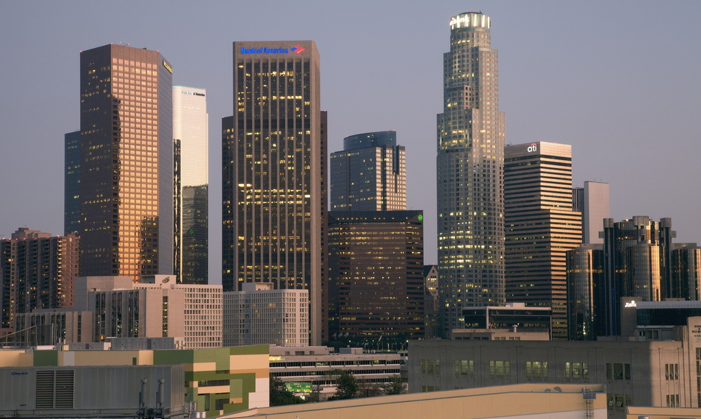 Los Angeles Skyline